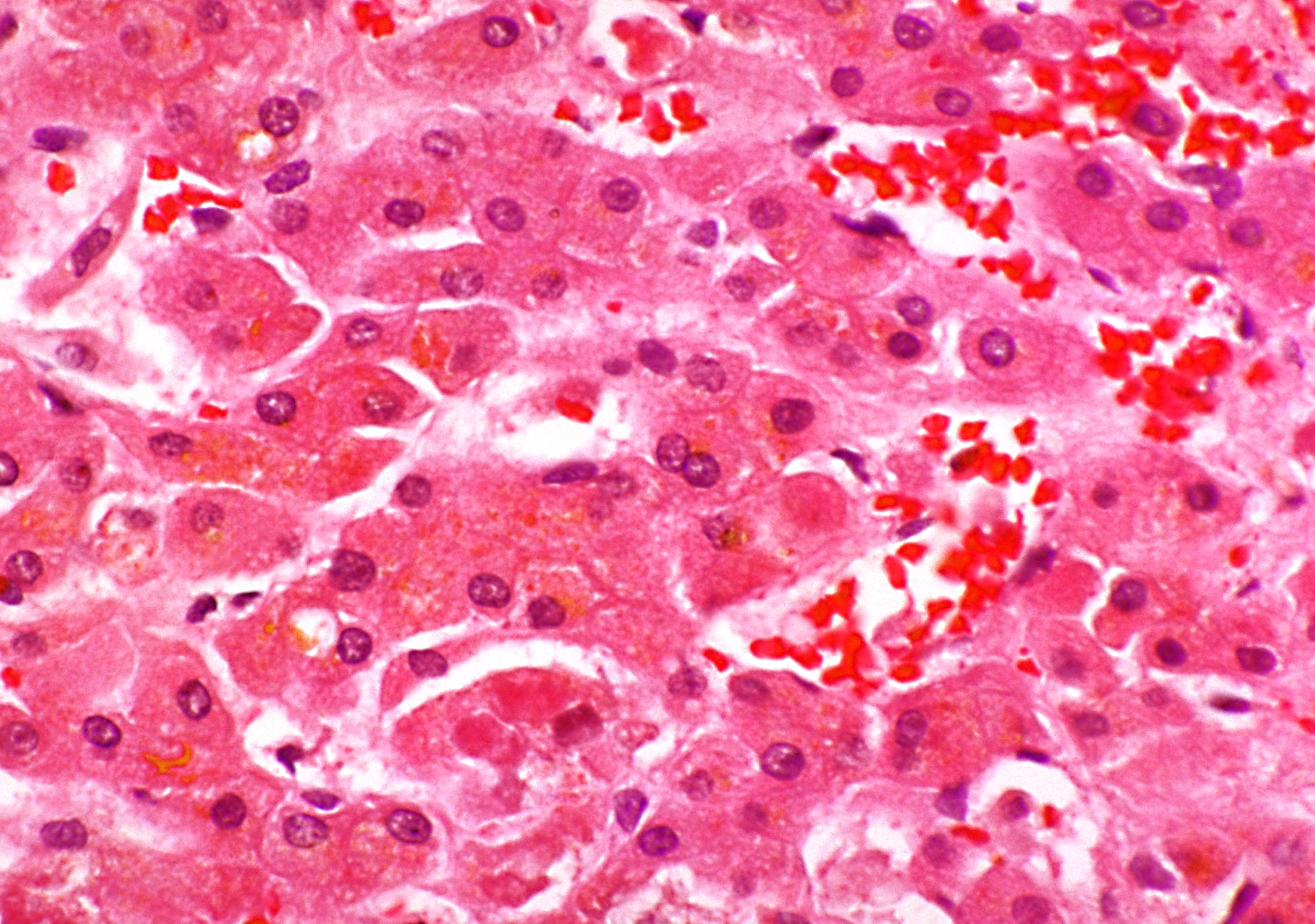 Histopathology of liver showing alcoholic hyalin (Mallory bodies) characteristic of alcohol abuse. (PHIL-ID #864)